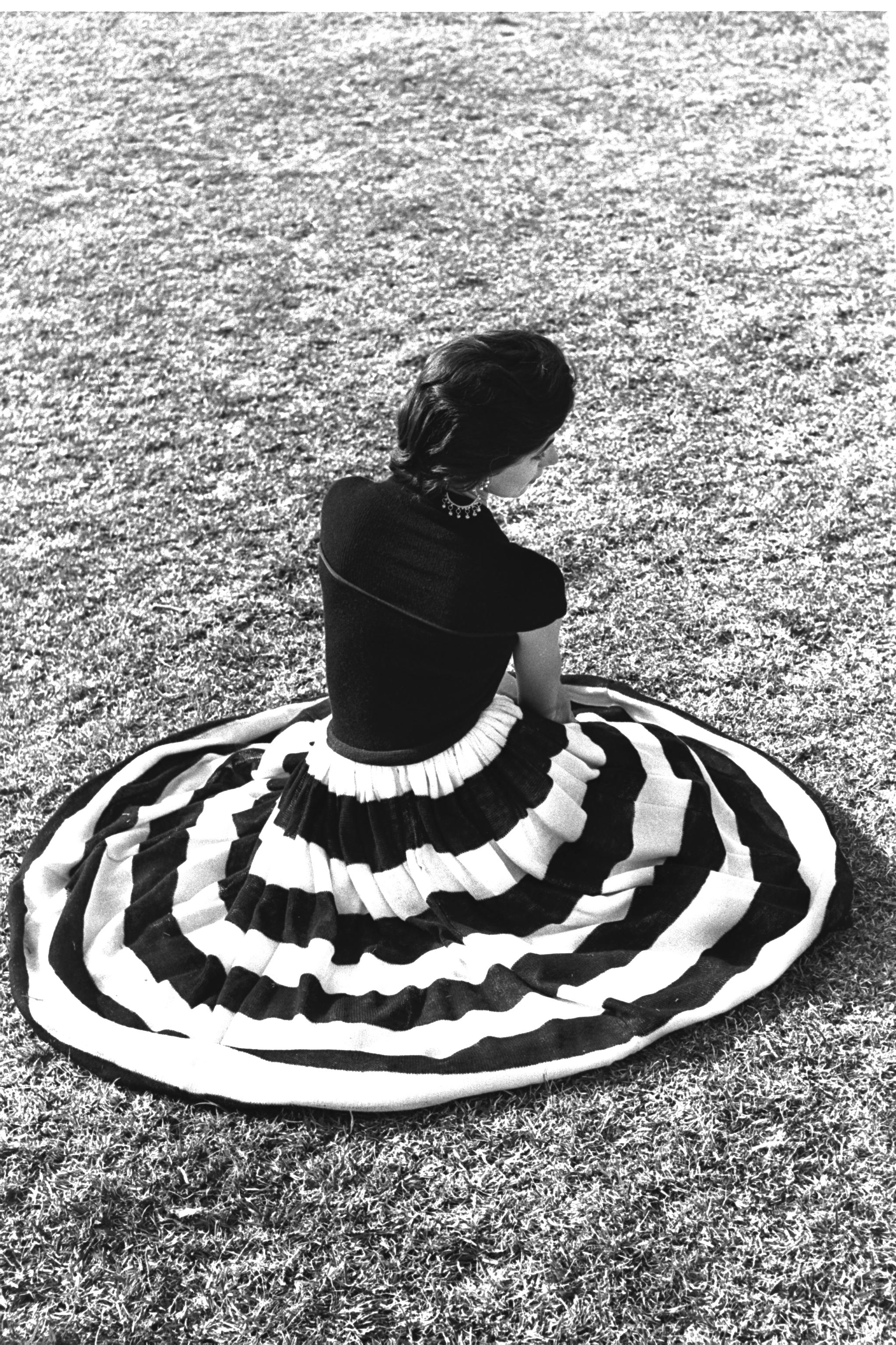 A striking black and white outfit by Maskit.